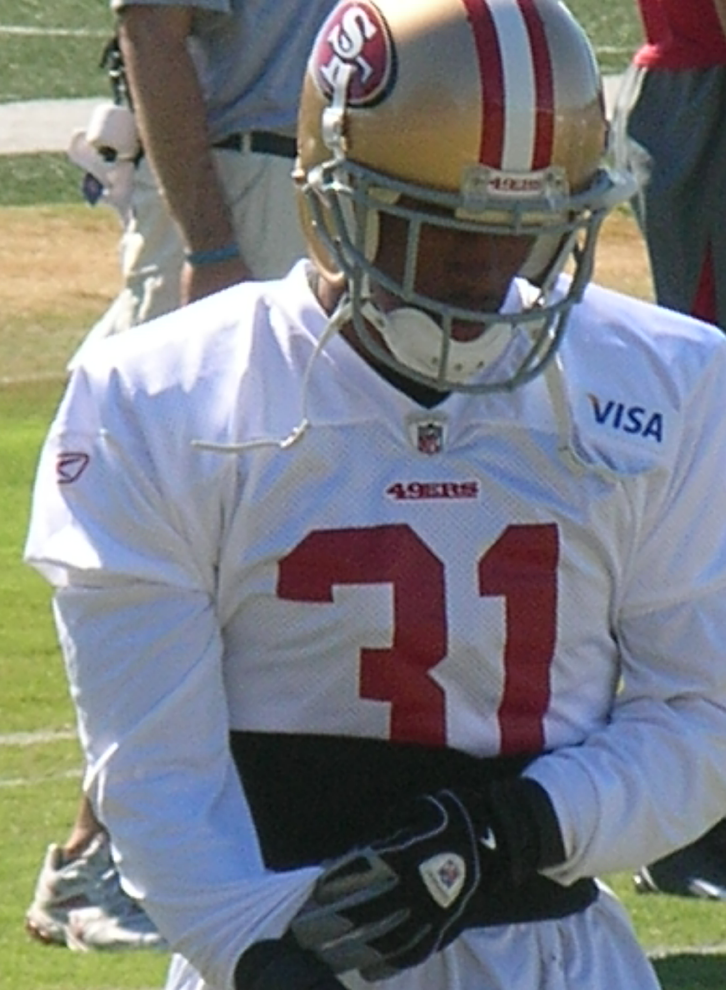 San Francisco 49ers cornerback William James at training camp in Santa Clara, California.